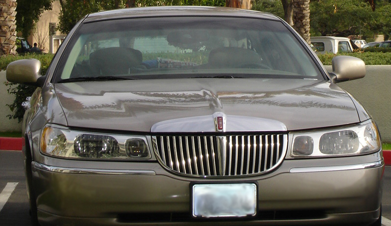 I shot the picture myself of my own car and edited using my photoshop software.